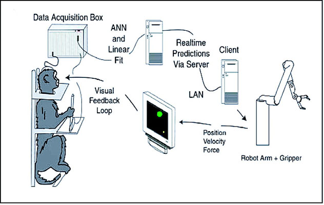 Behavioral setup and control loops, consisting of the data acquisition system, the computer running multiple linear models in real time, the robot arm equipped with a gripper, and the visual display. The pole was equipped with a gripping force transducer. Robot position was translated into cursor position on the screen, and feedback of the gripping force was provided by changing the cursor size. – Additional reading: Lebedev, M.A., Carmena, J.M., O’Doherty, J.E., Zacksenhouse, M., Henriquez, C.S., Principe, J.C., Nicolelis, M.A.L. (2005) Cortical ensemble adaptation to represent actuators controlled by a brain machine interface. J. Neurosci. 25: 4681-4693.